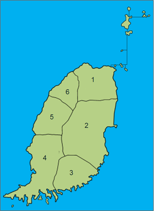 Grenada Map without Carriacou and Petite Martinique 1. Saint Patrick 2. Saint Andrew 3. Saint David 4. Saint George 5. Saint John 6. Saint Mark